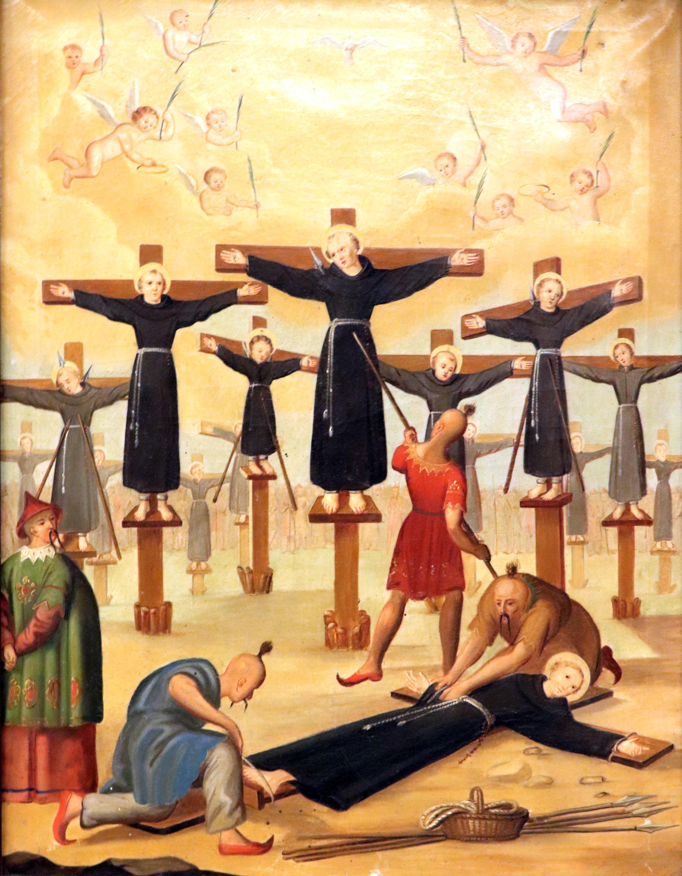 The crucifixion of the martyrs of Nagasaki. A painting in the franciscan convent of the Lady of the Snows in Prague.